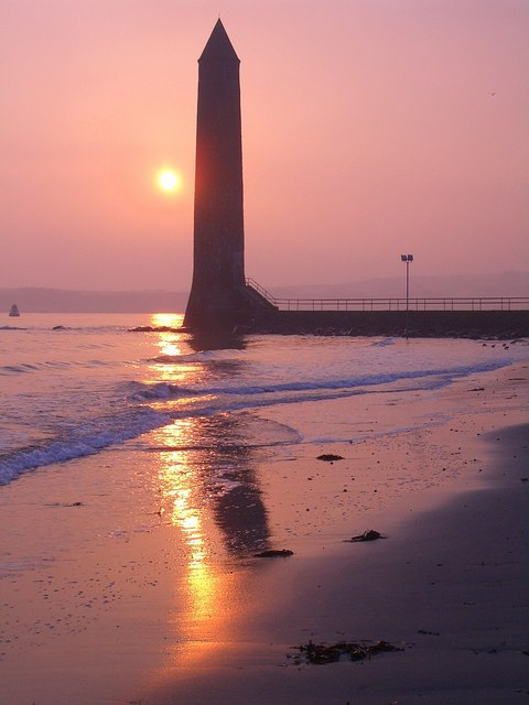 Chaine Tower or The Pencil, Larne Harbour Sunrise.